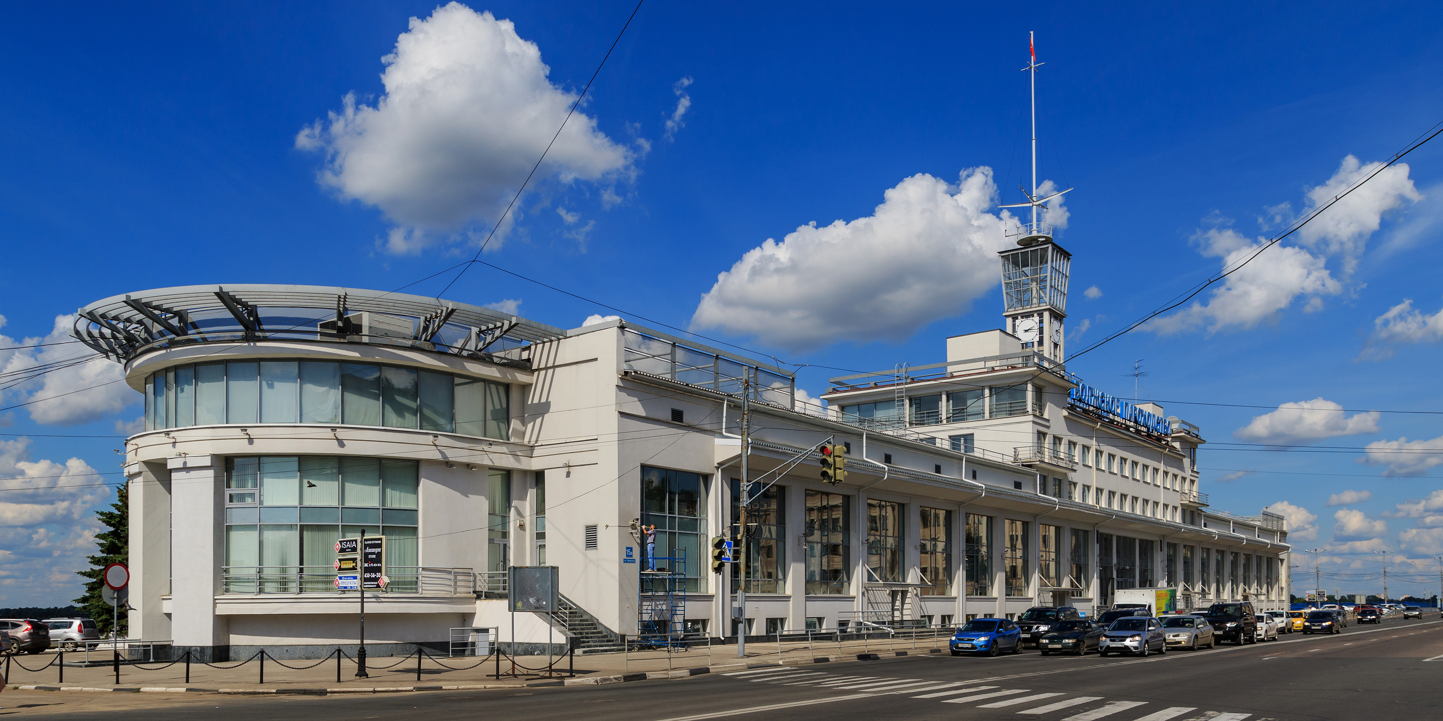 Building of the Volga Terminal in Nizhny Novgorod, Russia